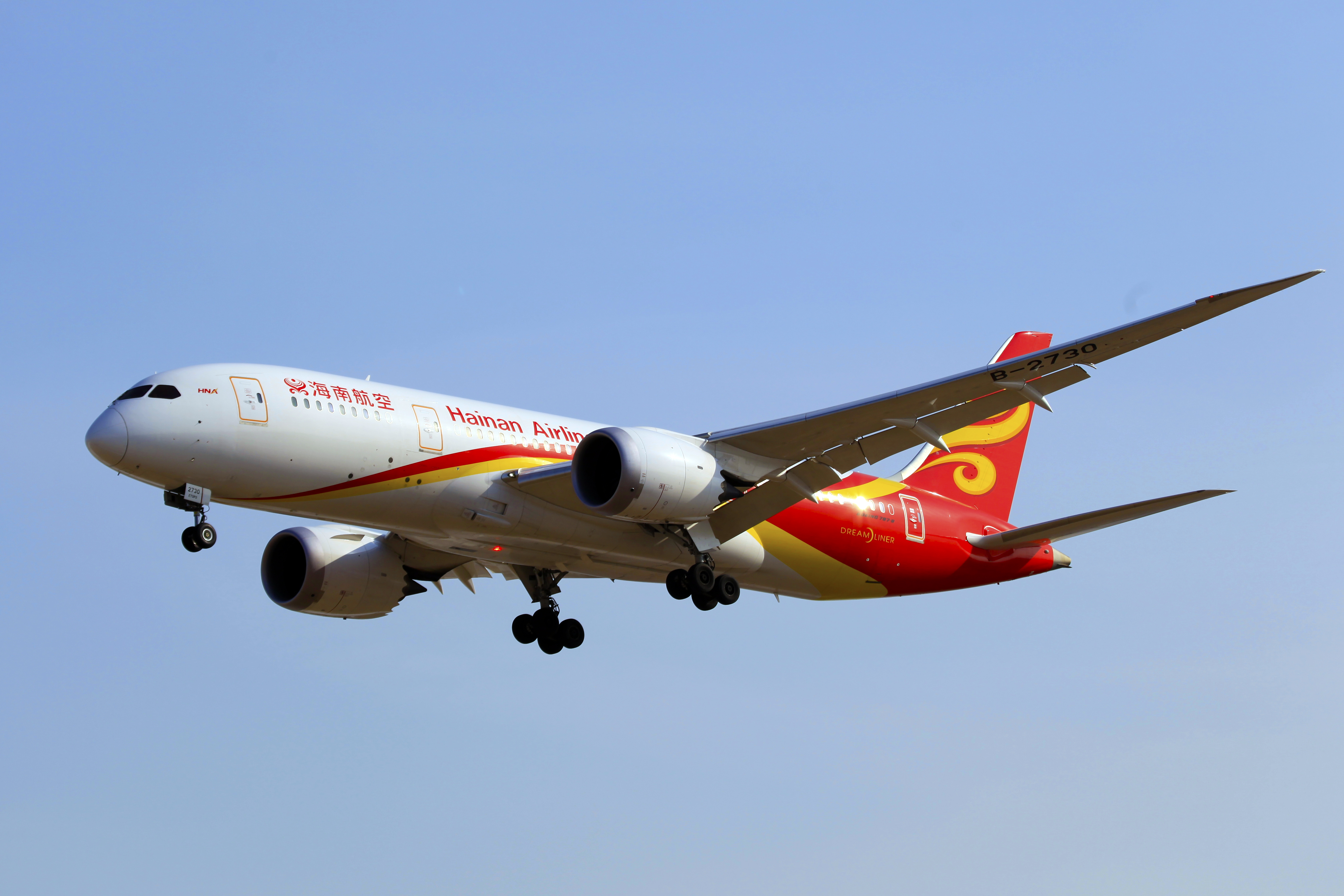 B-2730 | Hainan Airlines | Boeing 787-8 Dreamliner | Beijing Capital Internaitonal Airport [PEK]